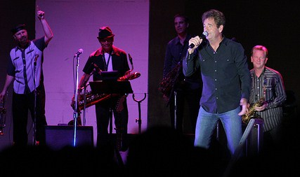 Rock group Huey Lewis and the News performing at Asser Levy Park in Brighton Beach in August 2008, photographed by Howard Brier. This is a cropped, shrunken, and a slightly retouched version of the original picture.